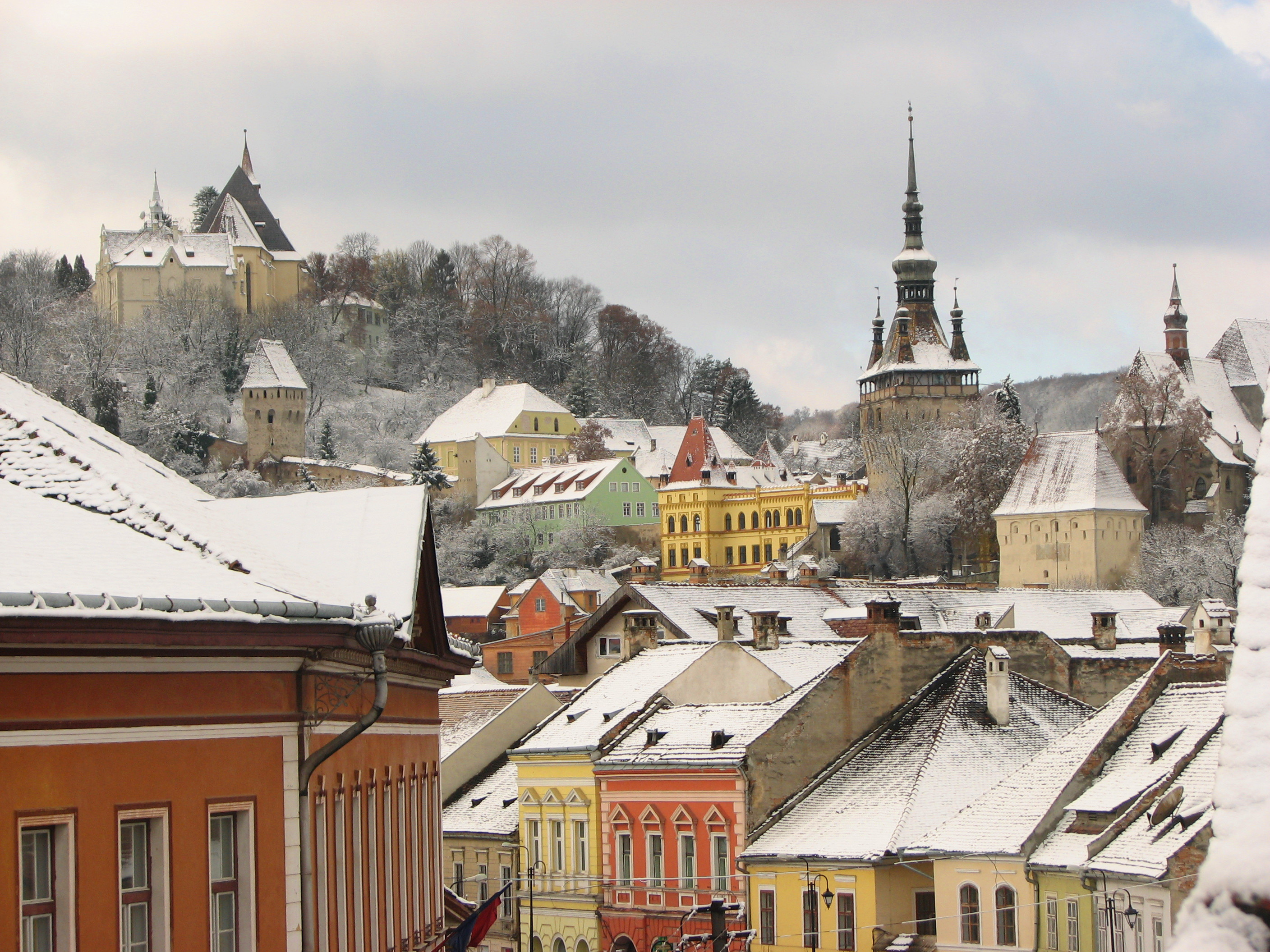 Sighisoara. Church on the hill